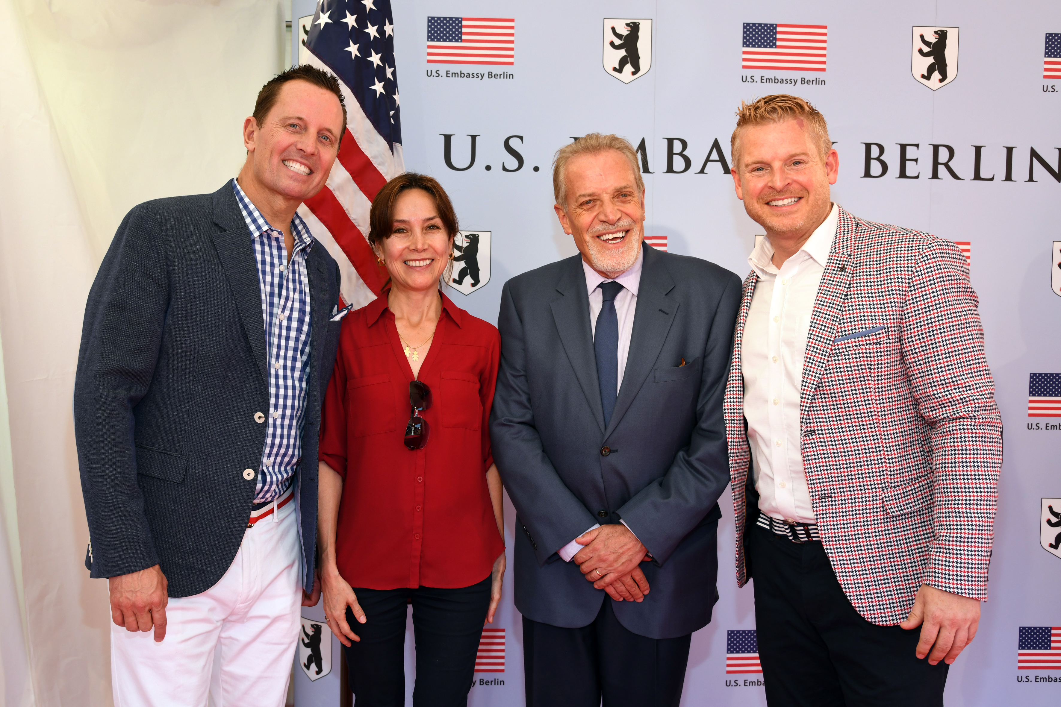 Richard Grenell, unknown woman, Manuel Antonio Mejía Dalmau, & Matt Lashey, Sommerfest der US Botschaft Berlin, 4th of July 2018